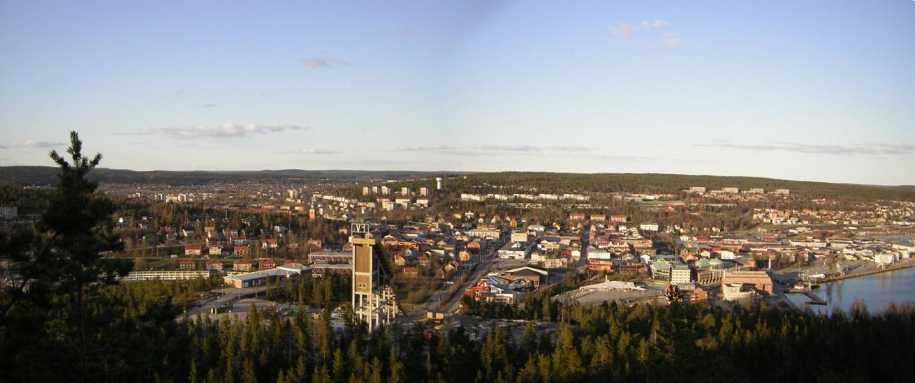 Foto: Ulf Nyberg